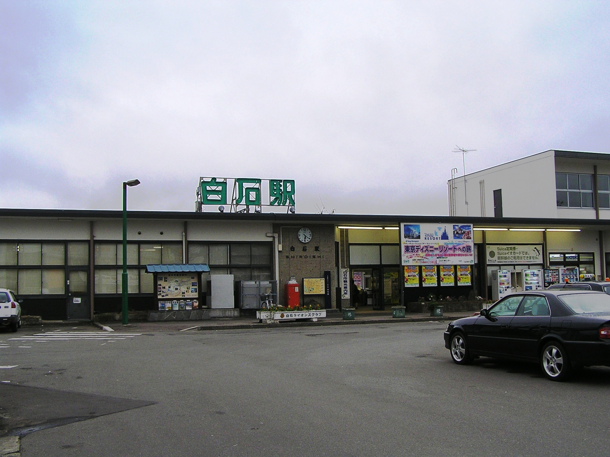 Shioishi Station, Shiroishi, Miyagi, Japan